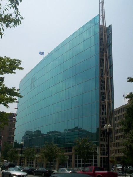 National Assciation of Realtors, Washington, D.C., United States